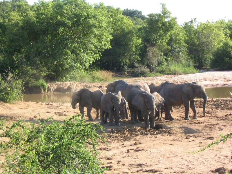 Author: Peter Garland Photo taken by myself in September 2005 Elephants in Yankari National Park. Free to public use